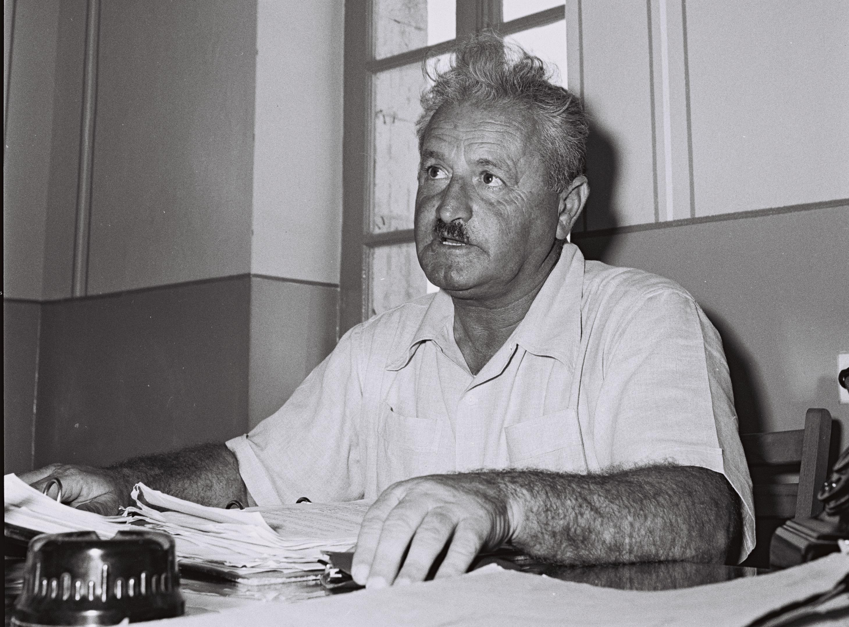 David Tuviahu, first Israeli mayor of Beersheba